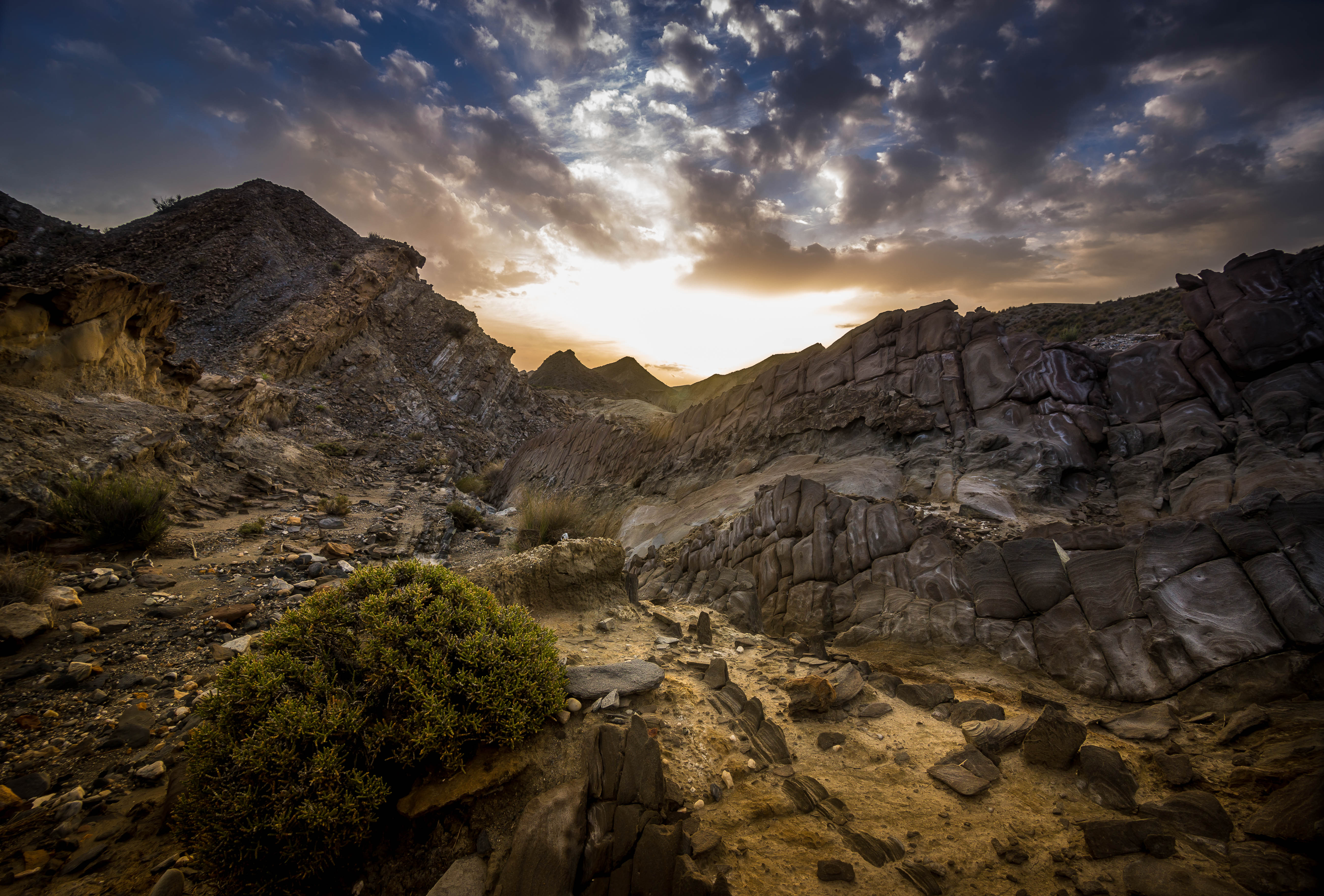 The sun coming up on the Tabernas Desert This is a photography of a Special Area of Conservation in Spain with the ID: ES0000047. Natura2000 entry, EEA entry